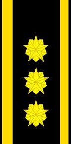 Police rank insignia of Norway